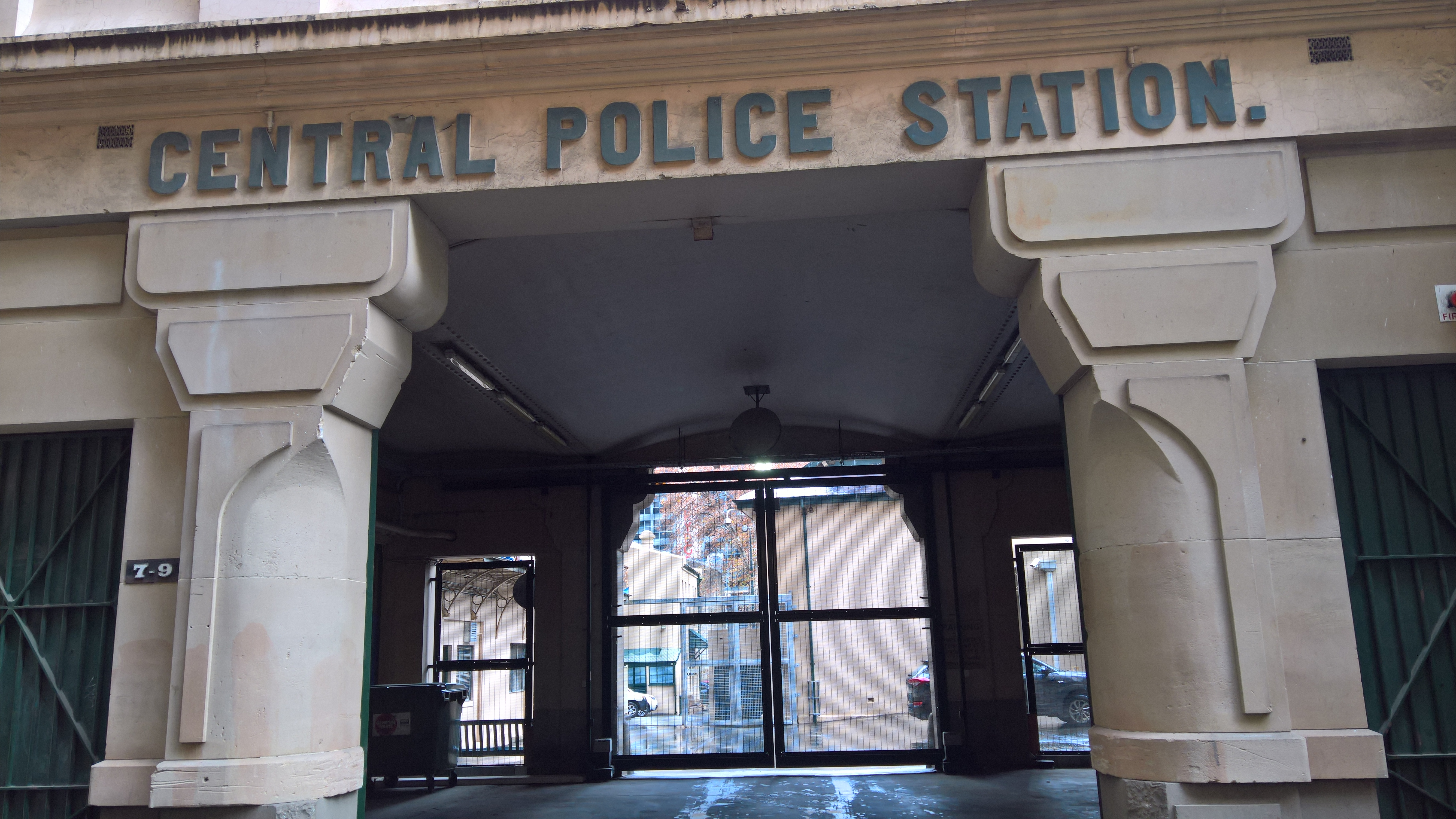 Entrance to Sydney Central Police Station, 7-9 Central Street, Sydney, showing open yard behind the security gate.